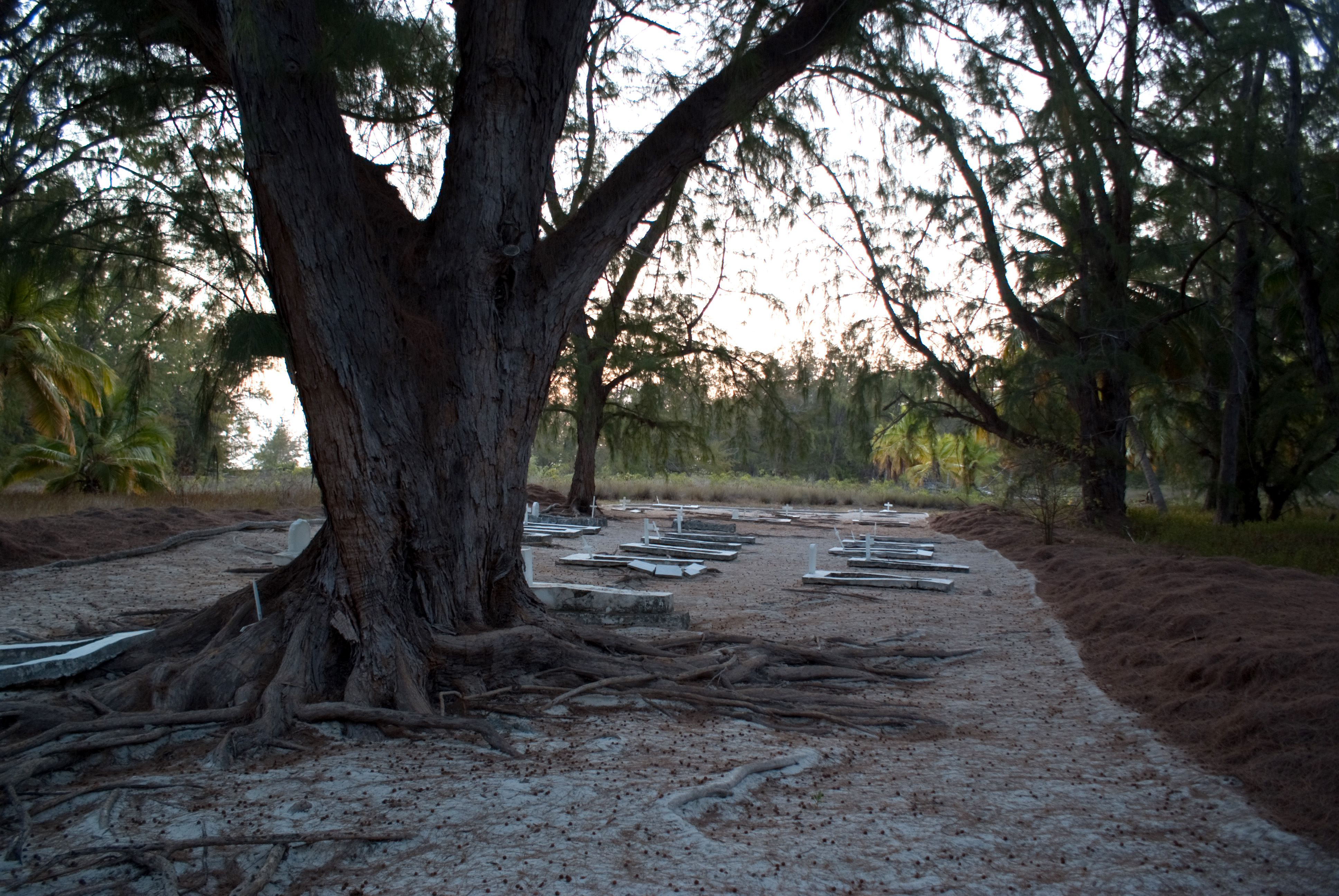 cemetery of Juan de Nova in Indian Ocean belonging to Scattered islands, within the territory of the France.